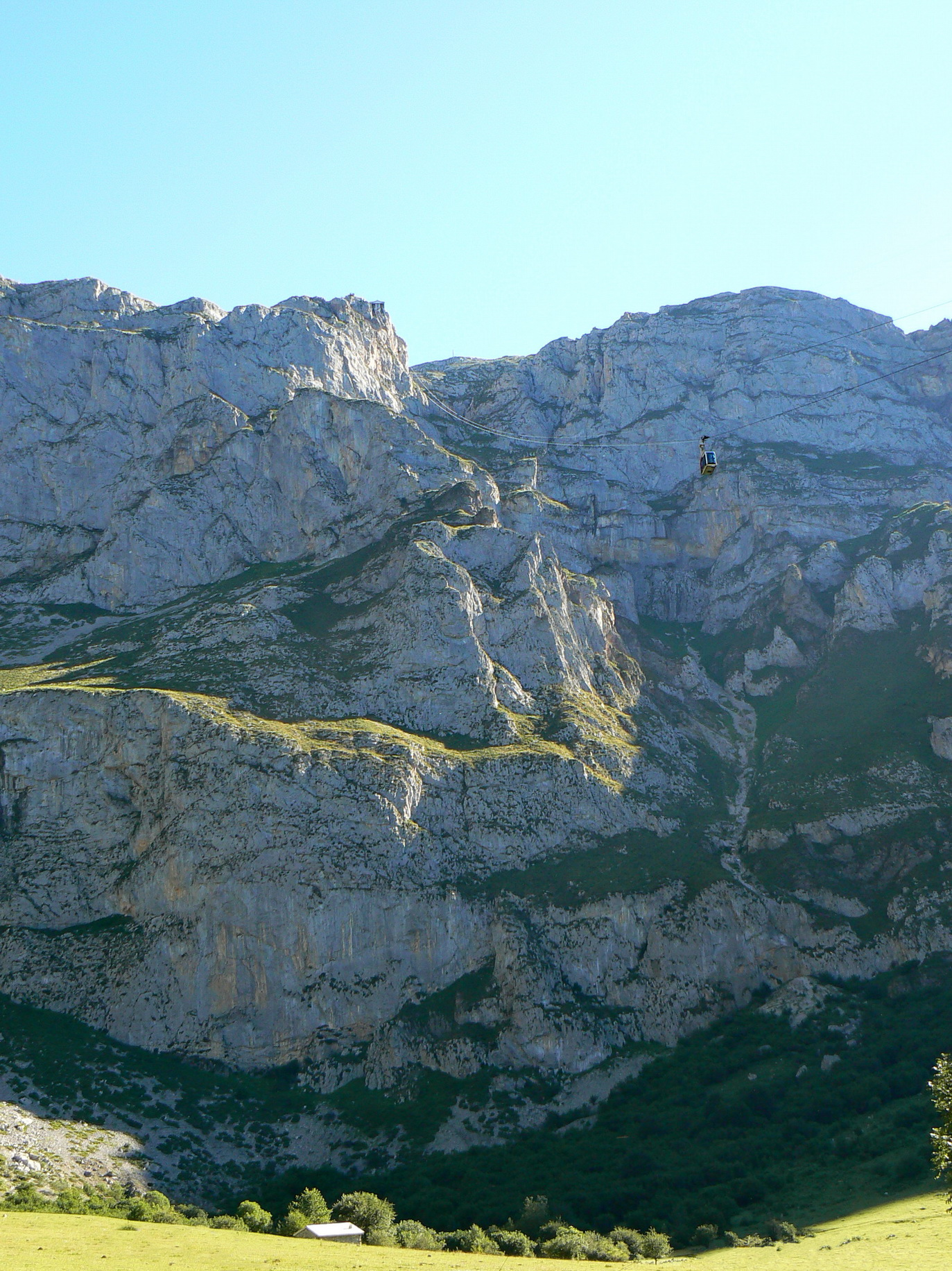 El Cable, Fuente Dé, Cantabria, Spain